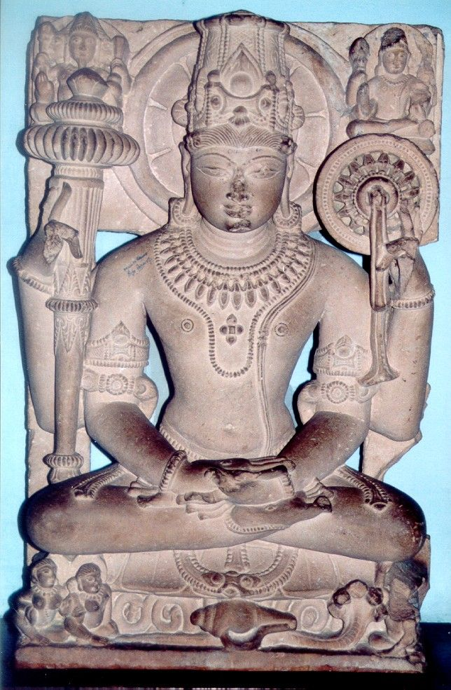 Vishnu from Mathura, India. He has four arms and holds mace and chakra, surrounded by Shiva and Brahma (on top)